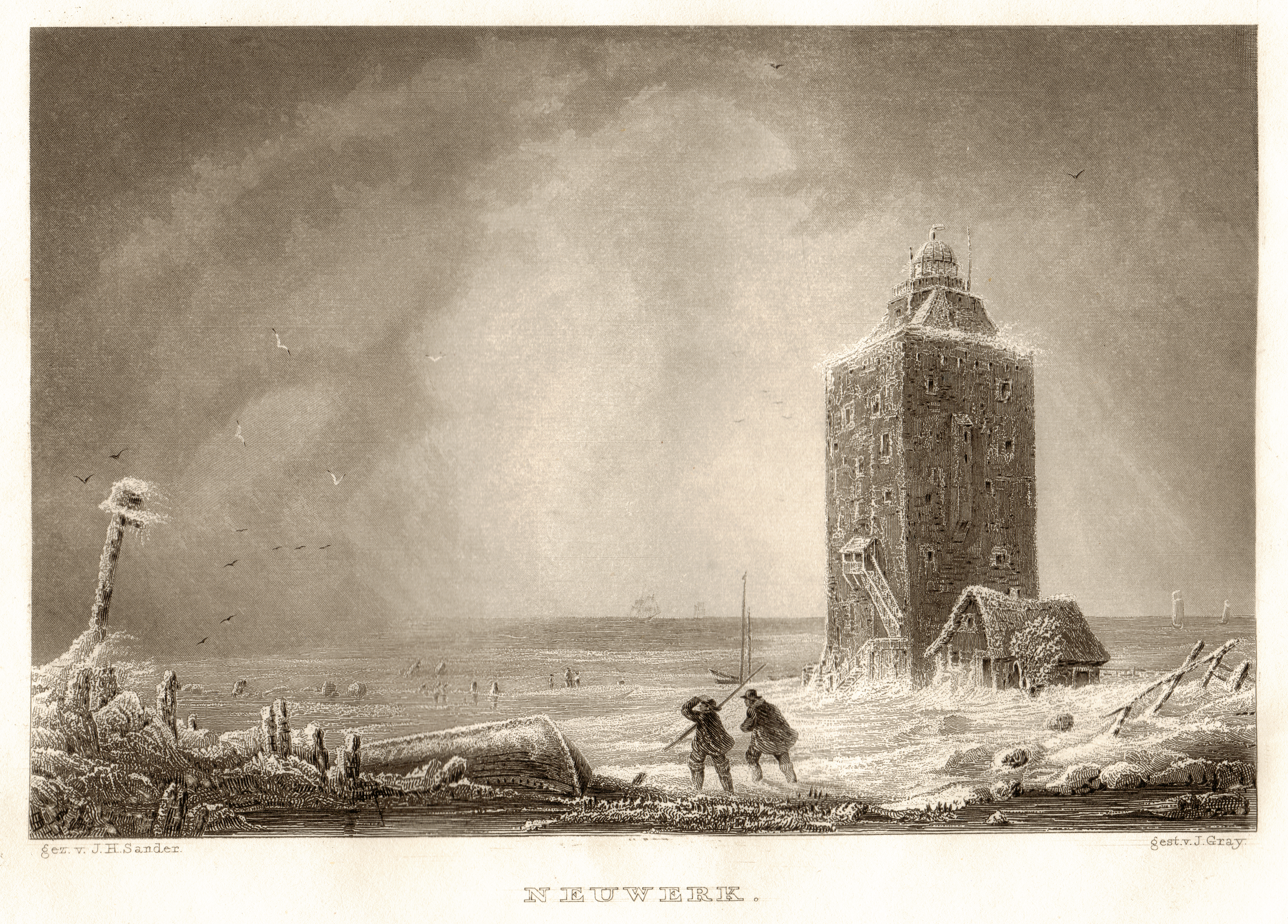 Tower of Neuwerk at storm surge. Steel engraving by Jens Gray after a drawing by Johann Heinrich Sander. About 1840. 15.3 x 10.2cm